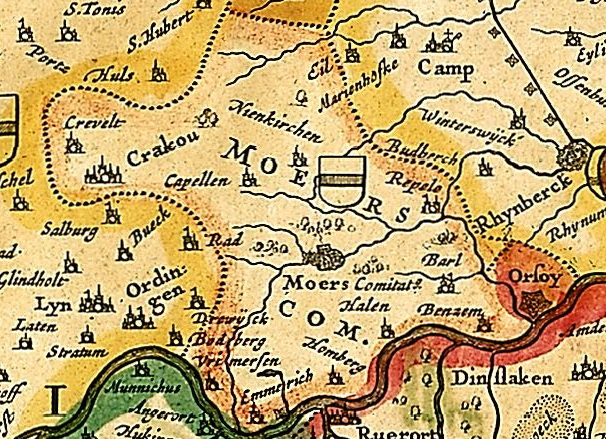 Part of Map of "Coloniensis archiepiscopatus" from atlas "Gallia belgica rhenana inferior" representing County Moers, Germany